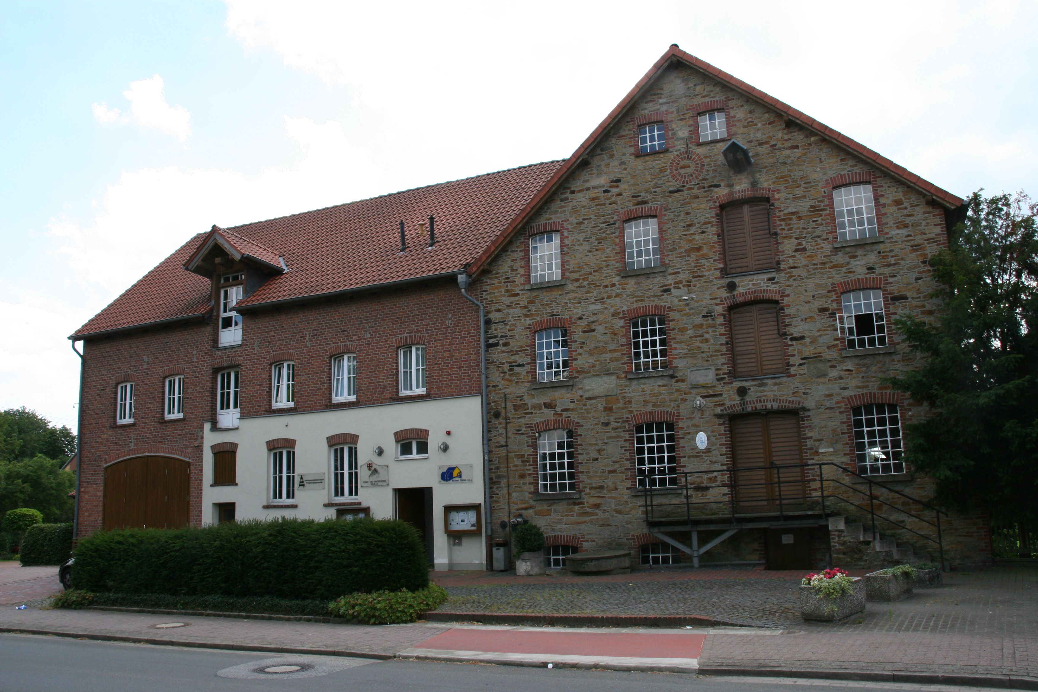 Belm: Old water mill